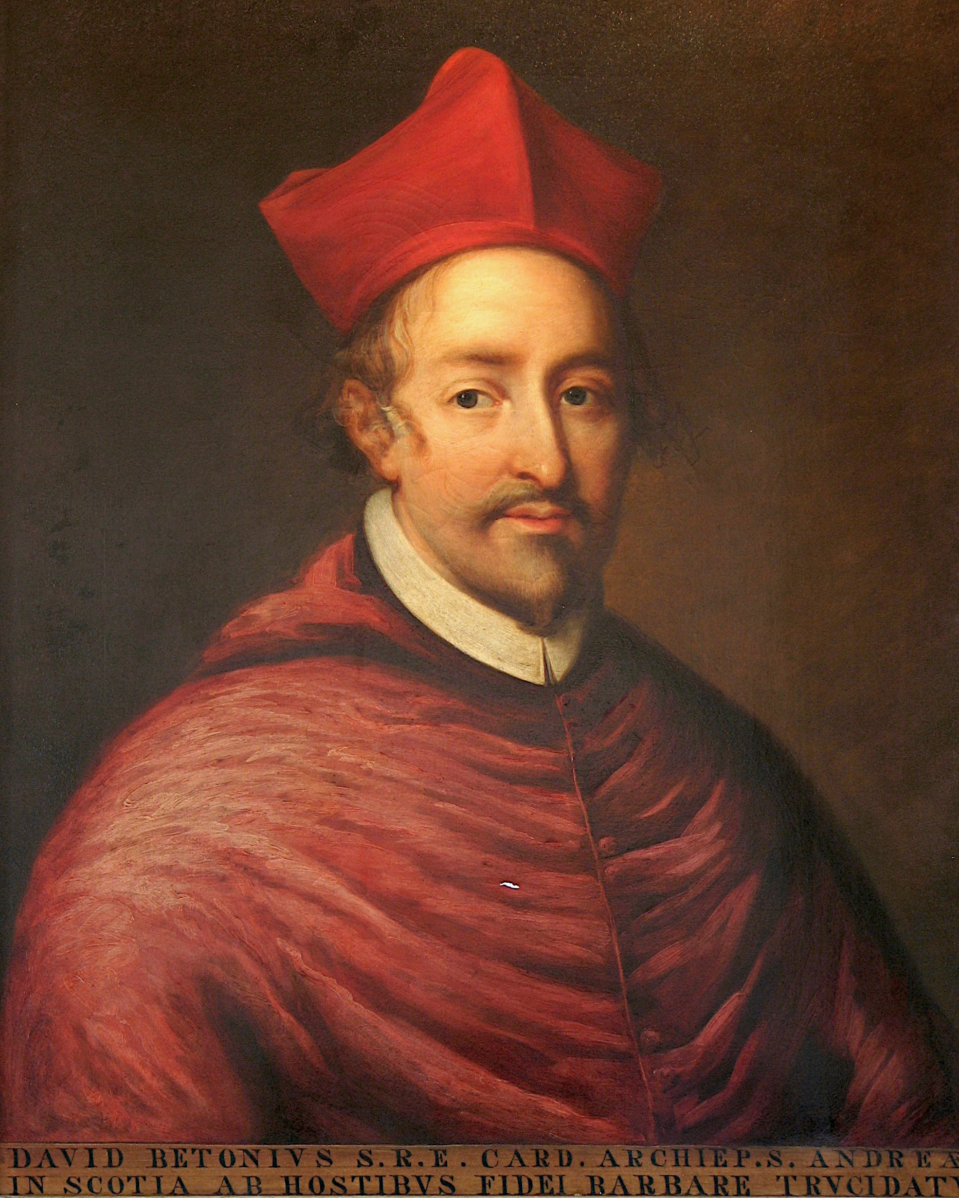 Cardinal David Beaton, Archbishop of Saint Andrews, Scotland (1494-1546)